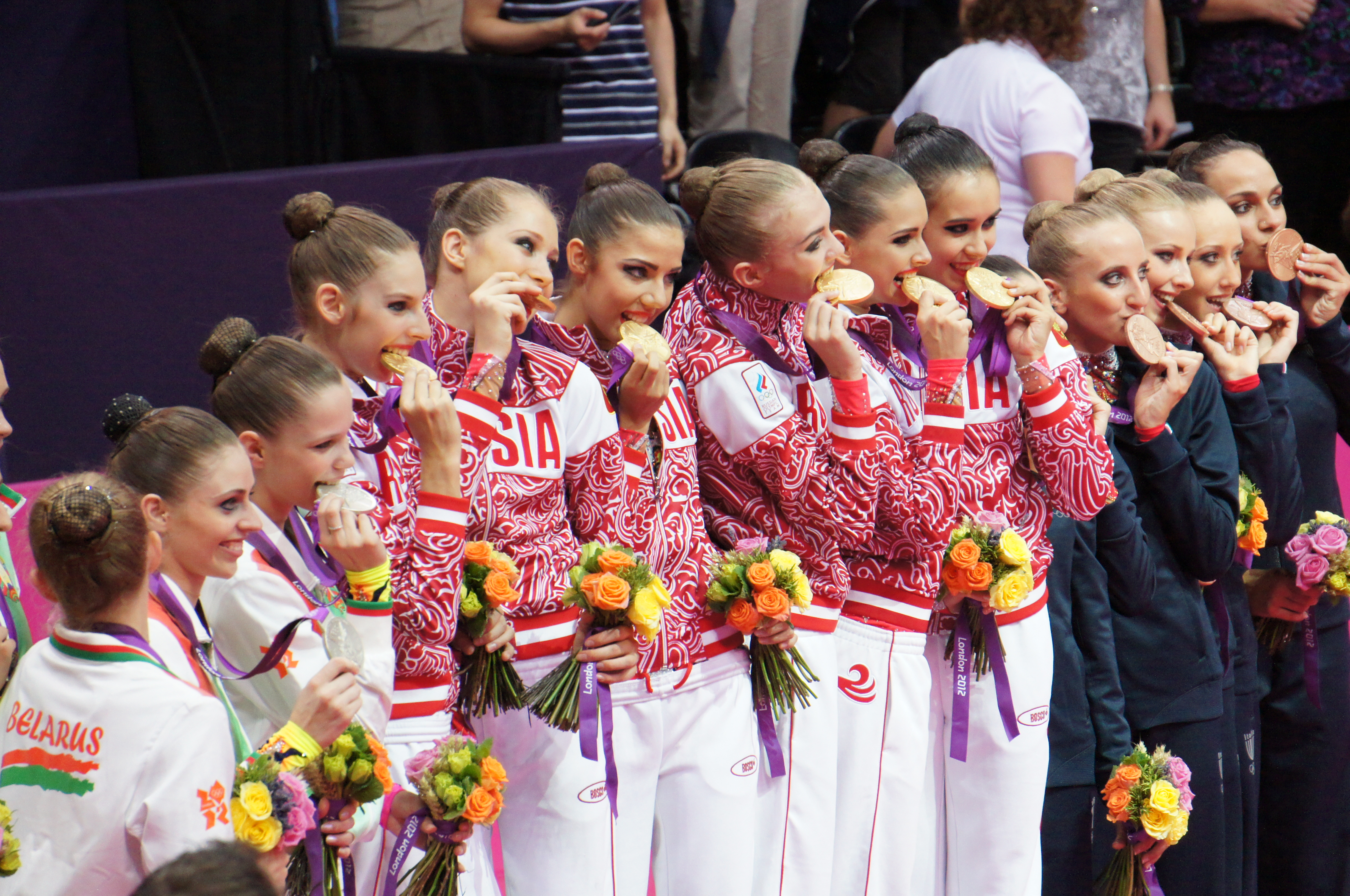 Rhythmic Gymnastics at the Olympic Games in London 2012.